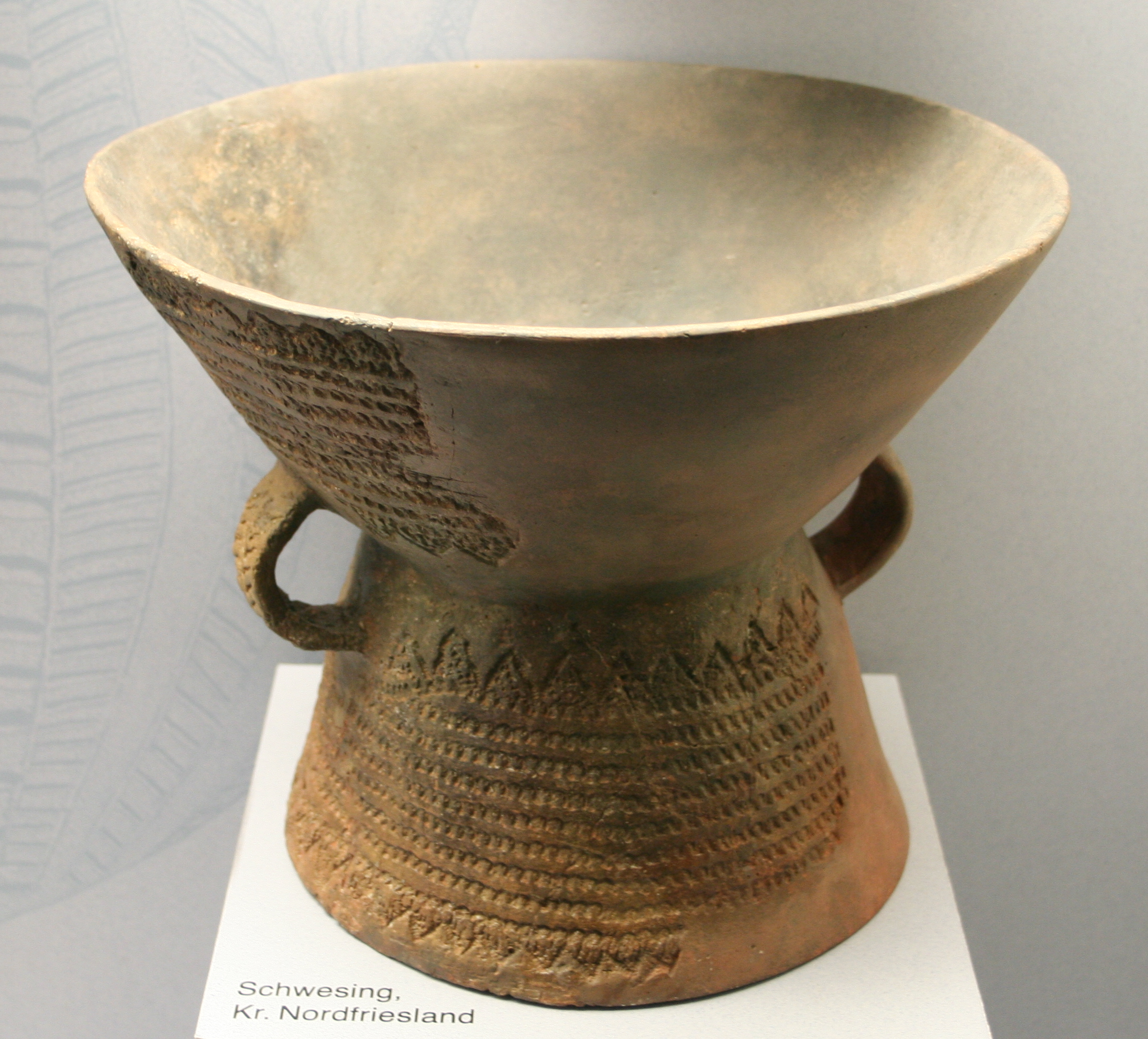 Archaeological state museum Schleswig-Holstein, Gottorf Castle